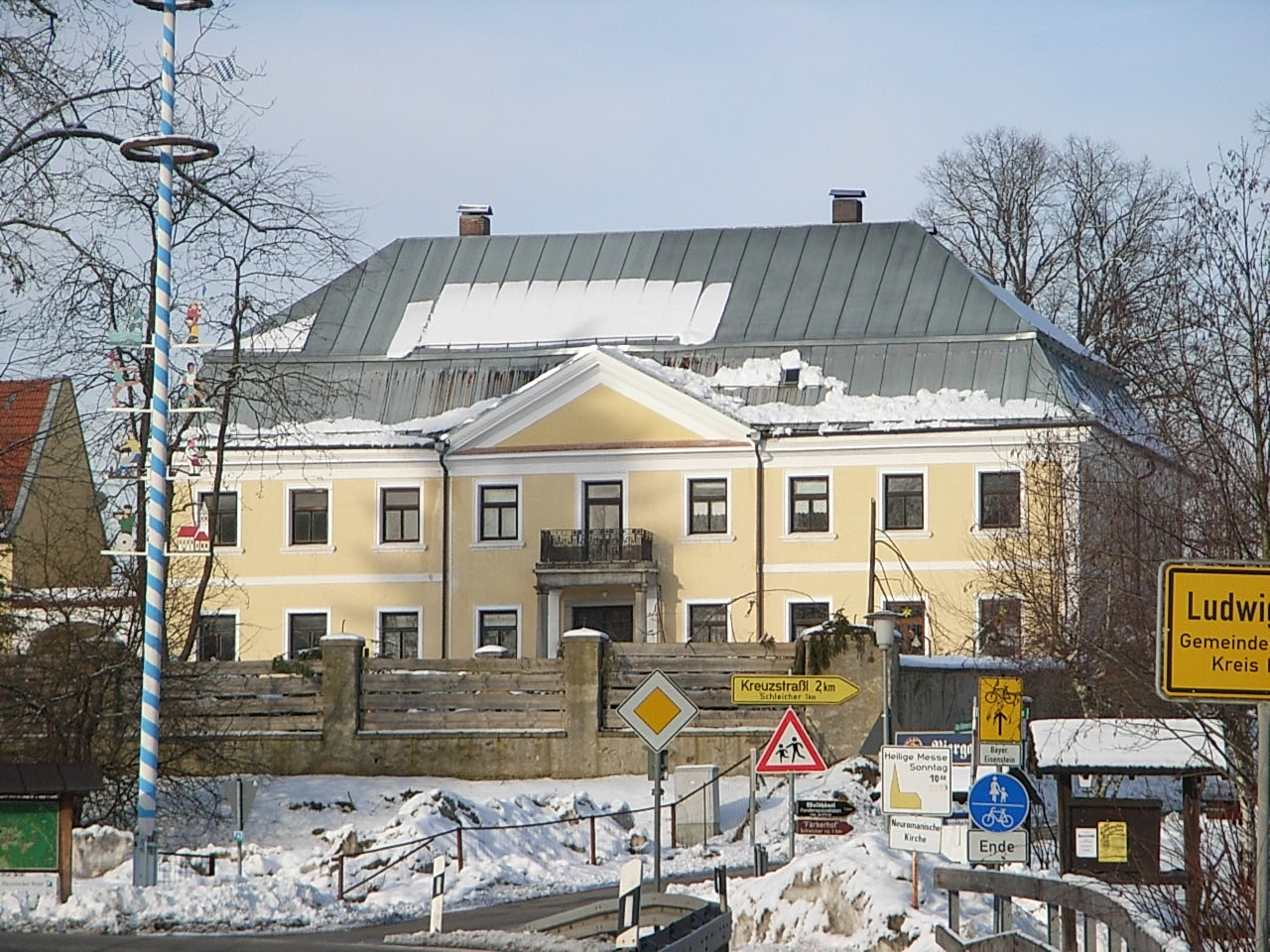 Ludwigsthal, manor house of the glassworks from south-east (Eisensteiner Straße).